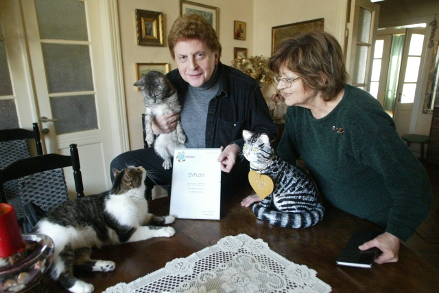 Krzysztof Cwynar with his cats.